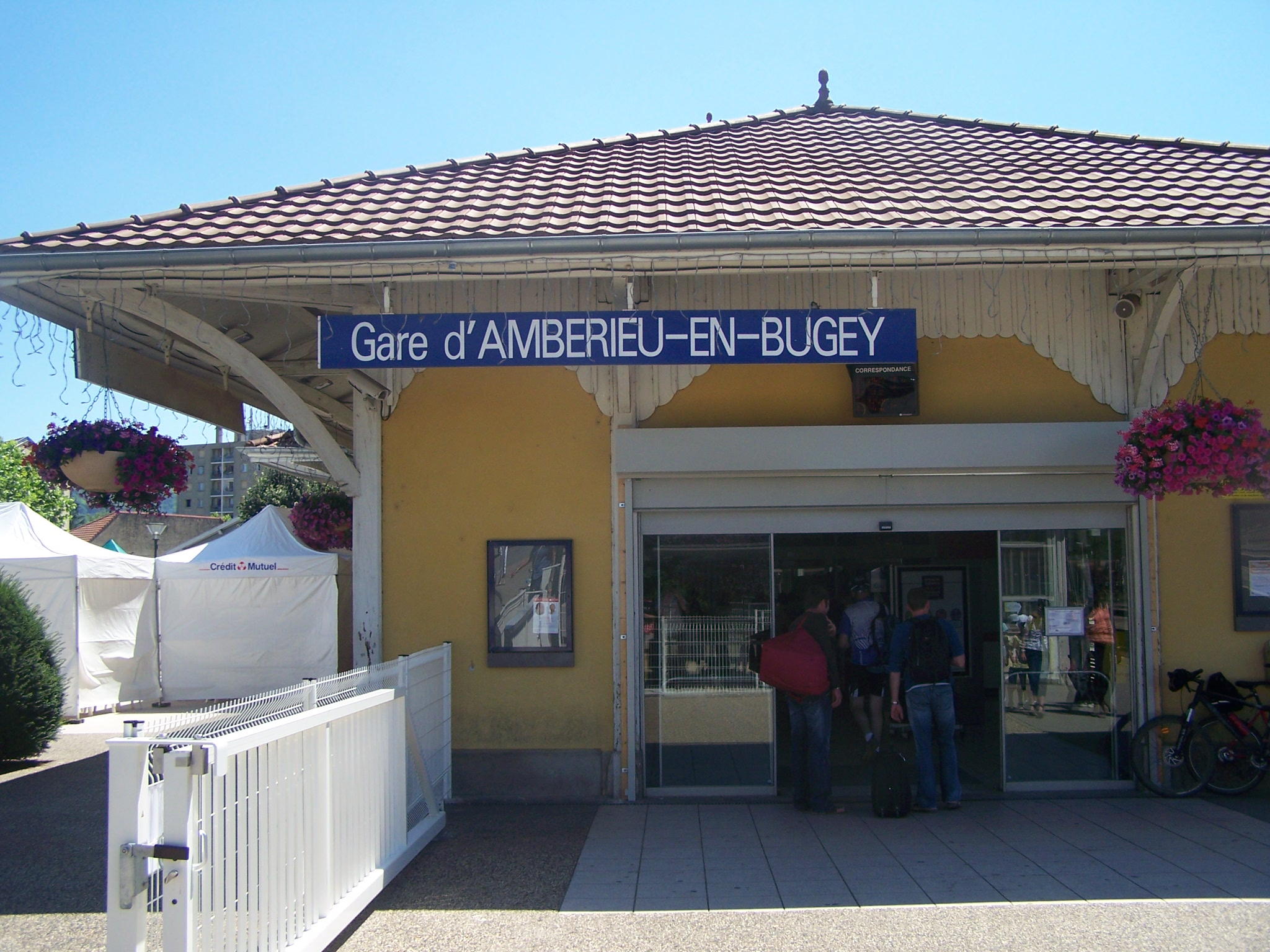 Entrance of the buidling of Ambérieu railway station, in Ain, France.